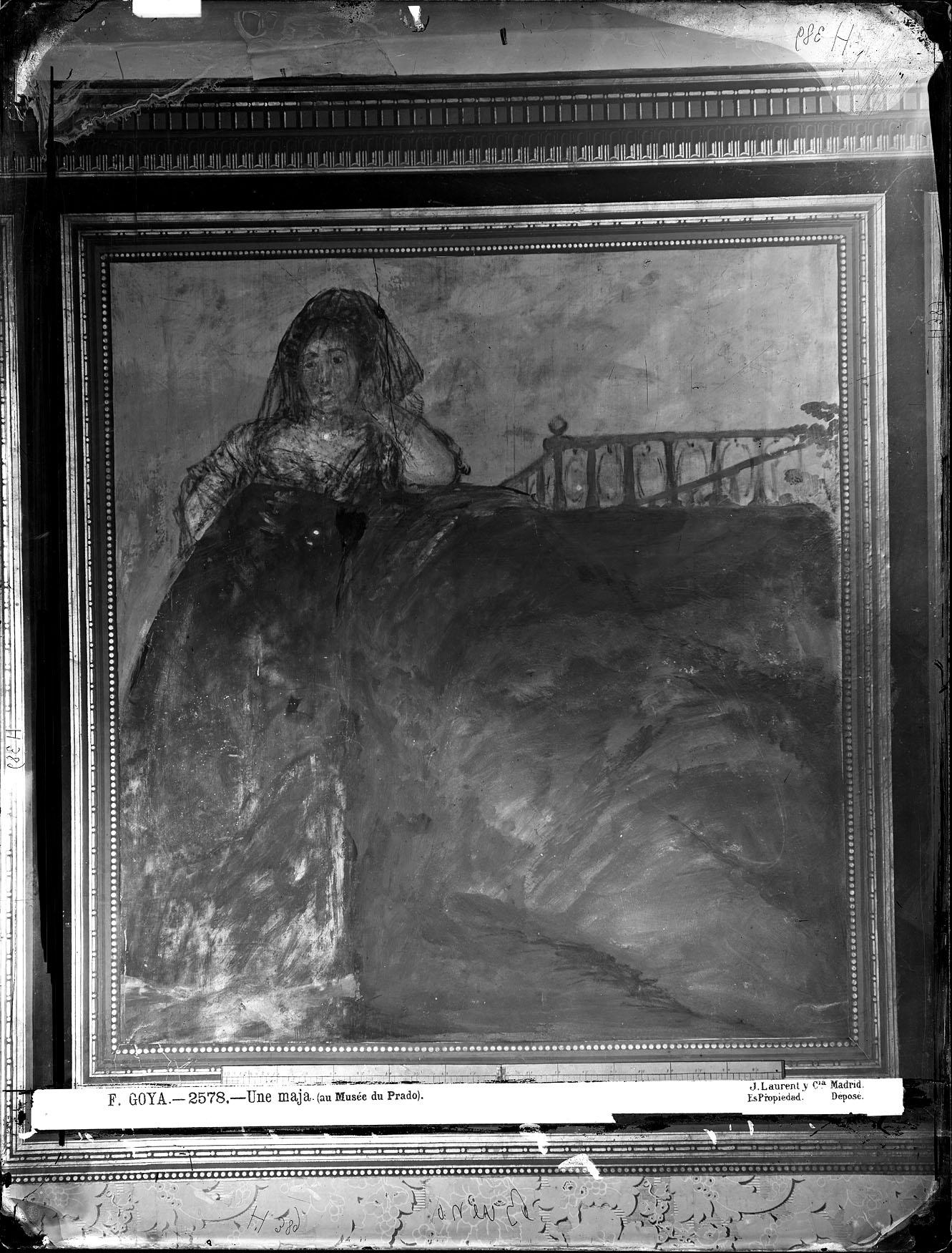 Black Paintings. Mural painting known as "Doña Leocadia", photographed in 1874 at the Quinta de Goya (or Quinta del Sordo), by J. Laurent. The original glass negative is preserved today in the Archives Ruiz Vernacci, Institute of Cultural Heritage of Spain, in Madrid.